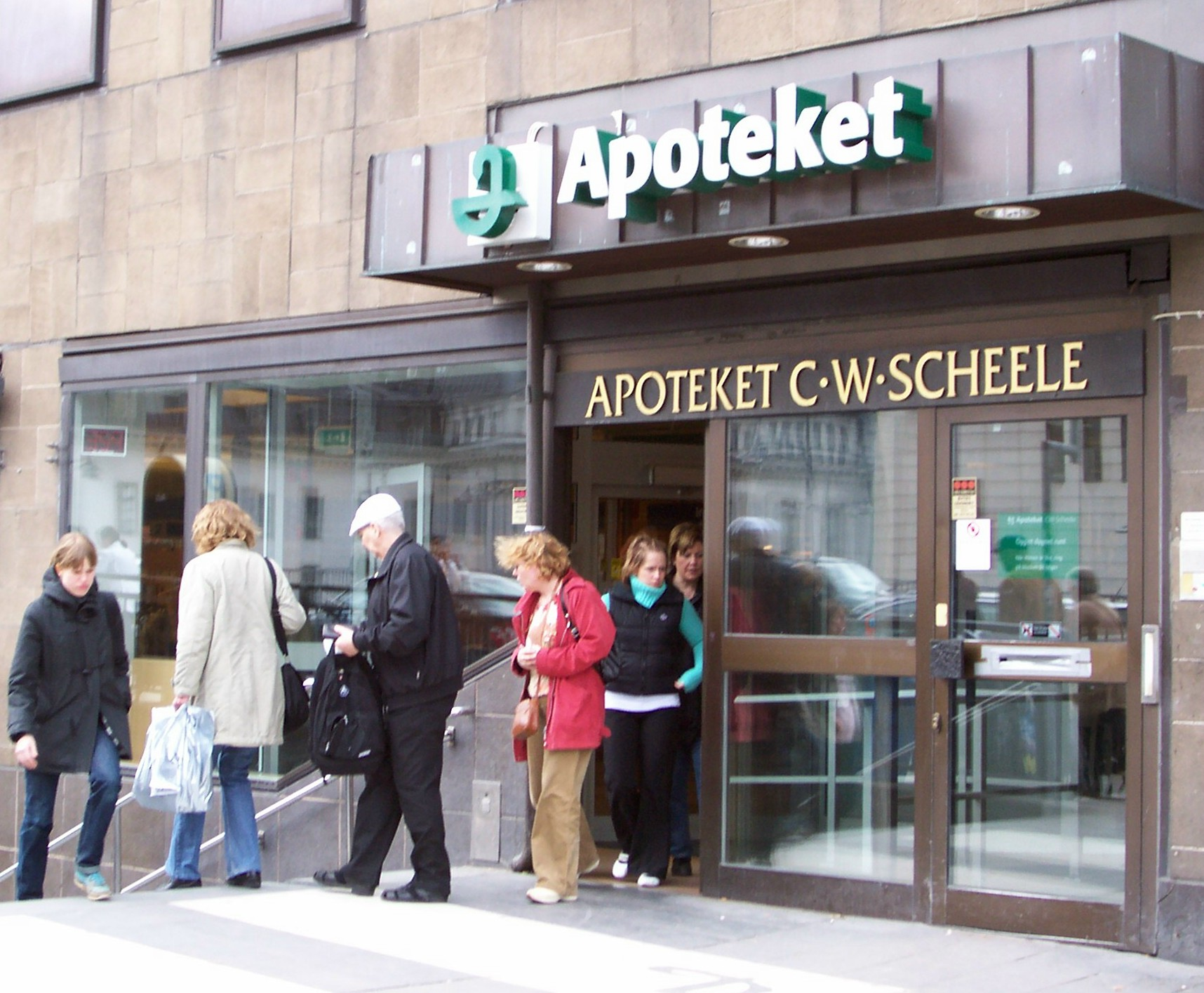 CW Scheele pharmacy on Klarabergsgatan 64 in Stockholm, Sweden